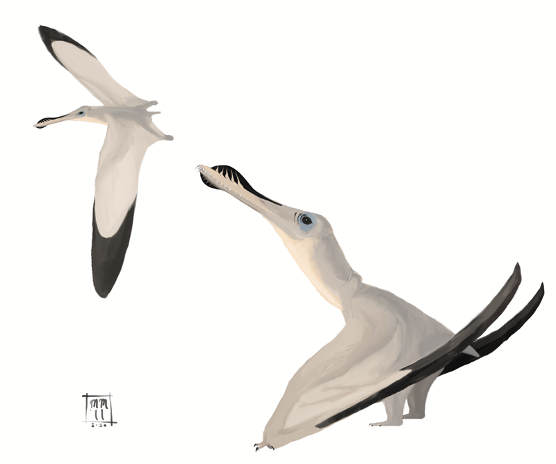 Life restoration of the Brazilian ornithocheiroid pterosaur Anhanguera blittersdorffi. Digital painting; credit Matt Martyniuk.